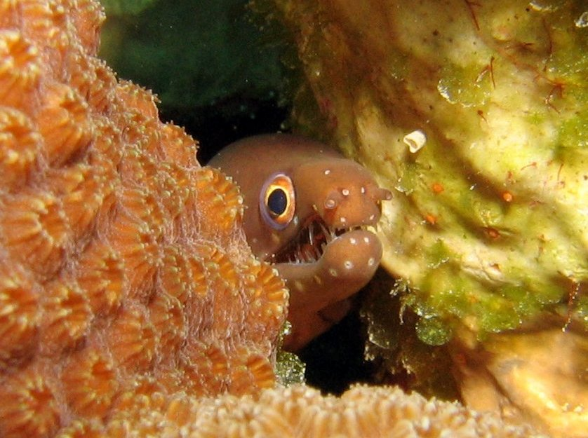 Chestnut Moray Eel (Enchelycore carychroa)